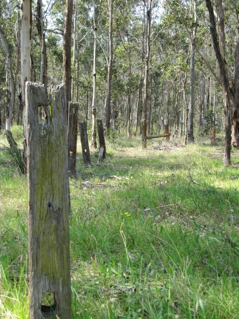 Beulah, Gilead